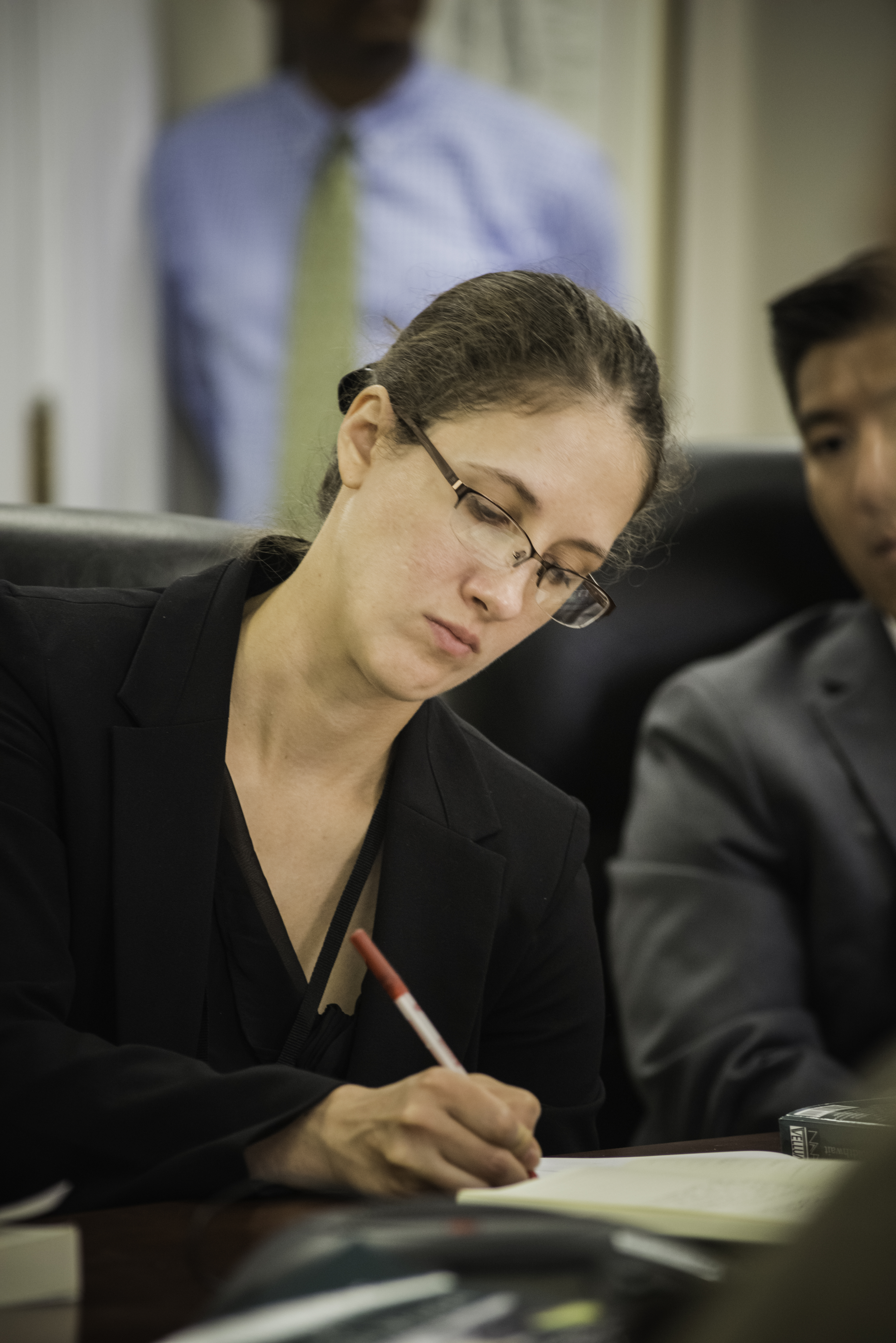 Melody Maxwell, Animal and Plant Health Inspection Servcie (APHIS), International Service takes notes during a meeting with Ambassador Christopher E. Goldthwait and author of, “Ambassador to a Small World – Letters from Chad”. Ambassador Goldthwaite discussed diplomacy, protocol, and maneuvering around an embassy at the U. S. Department of Agriculture (USDA) in Washington, D. C. on Thursday, Aug. 18, 2016. USDA photo by Bob Nichols.